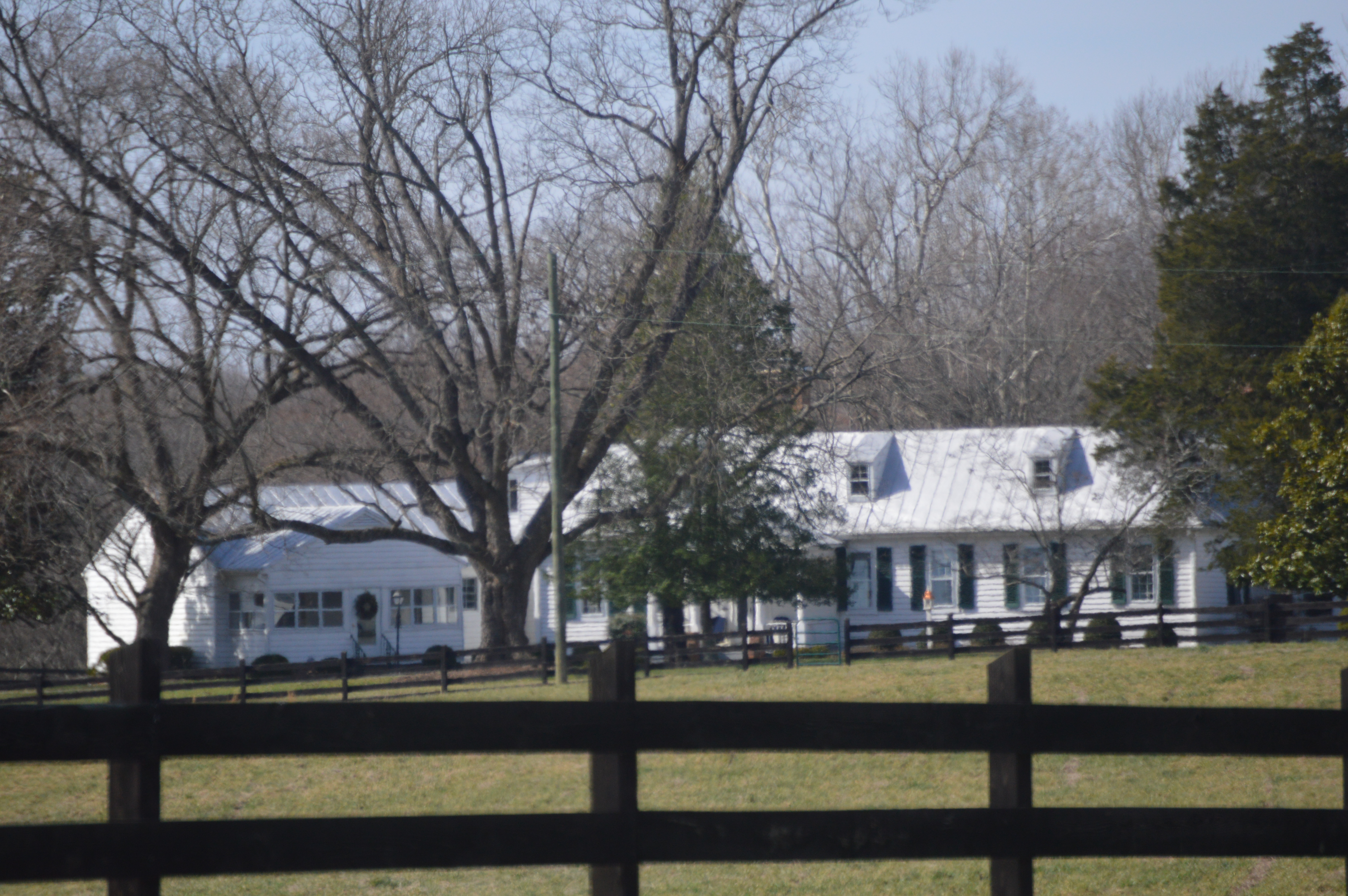 Distant view of Blenheim, located at 6177 Blenheim Road midway between Cumberland Court House and Powhatan Court House in Powhatan County, Virginia, United States. Built circa 1750, it is listed on the National Register of Historic Places.